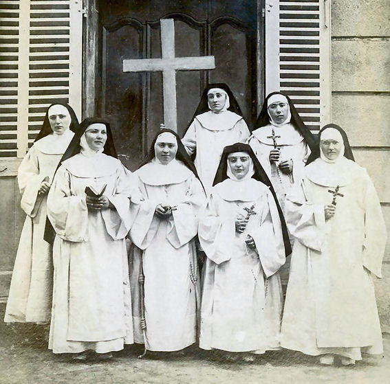 Franciscanessen in Tianjin around 1899